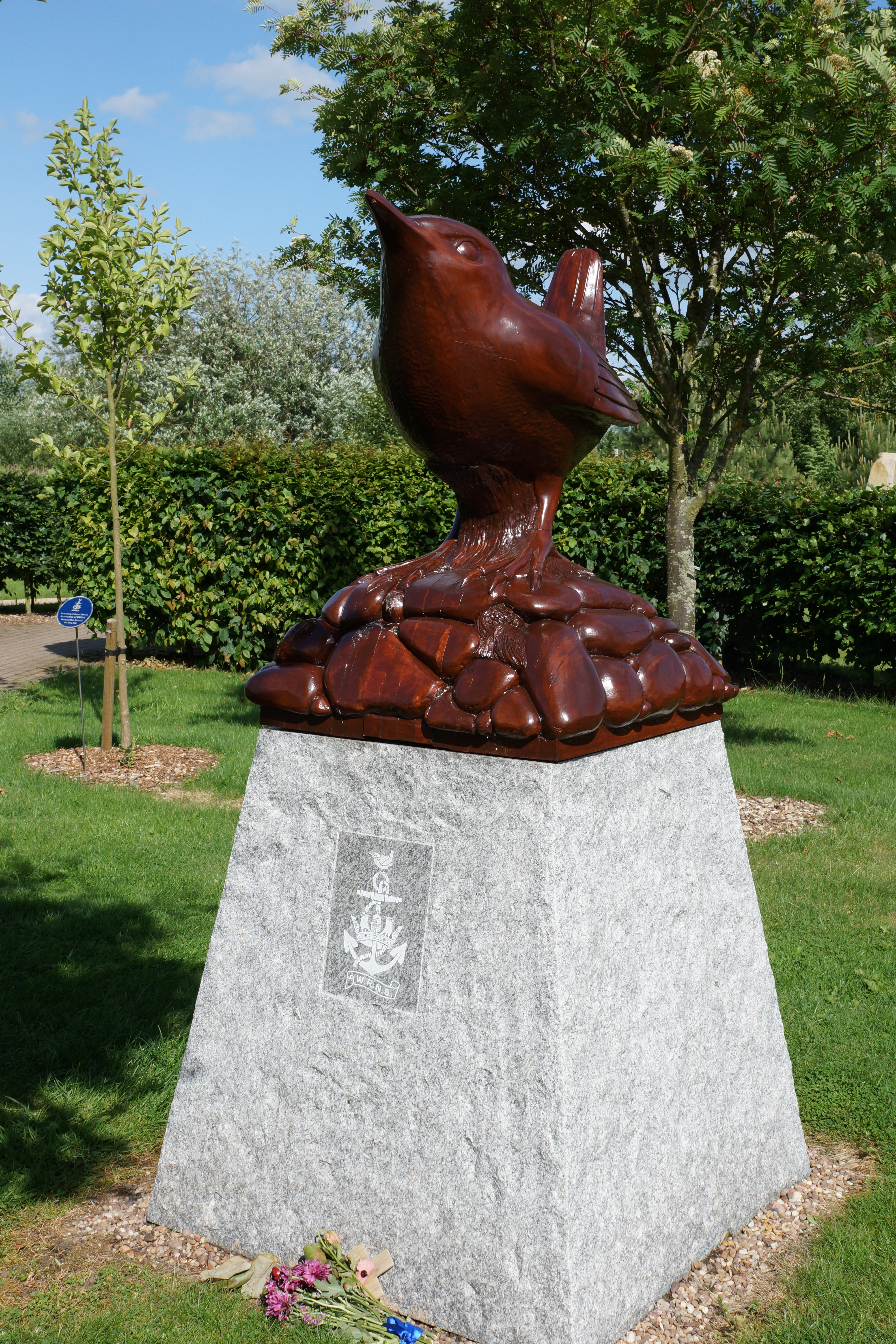 Women's Royal Naval Service (Wren) Memorial at the National Memorial Arboretum, Alrewas, Staffordshire, England.